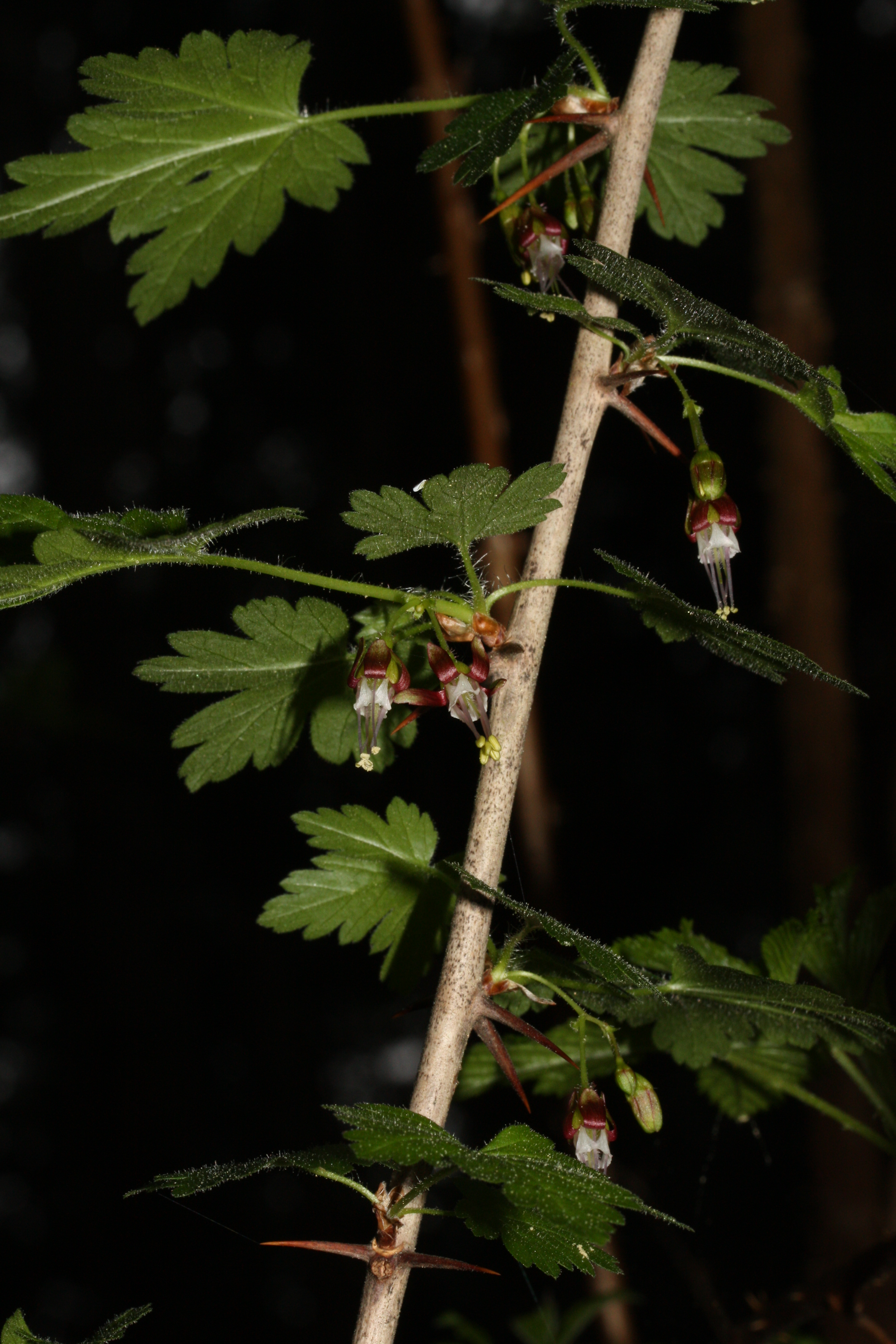 Spreading Gooseberry, Coast Black Gooseberry